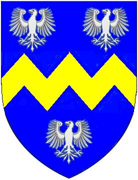 Arms of Walter Baronets of Sarsden, Oxfordshire: Azure, a fesse indented or between three eagles displayed argent. (Source: Robson, The British Herald)